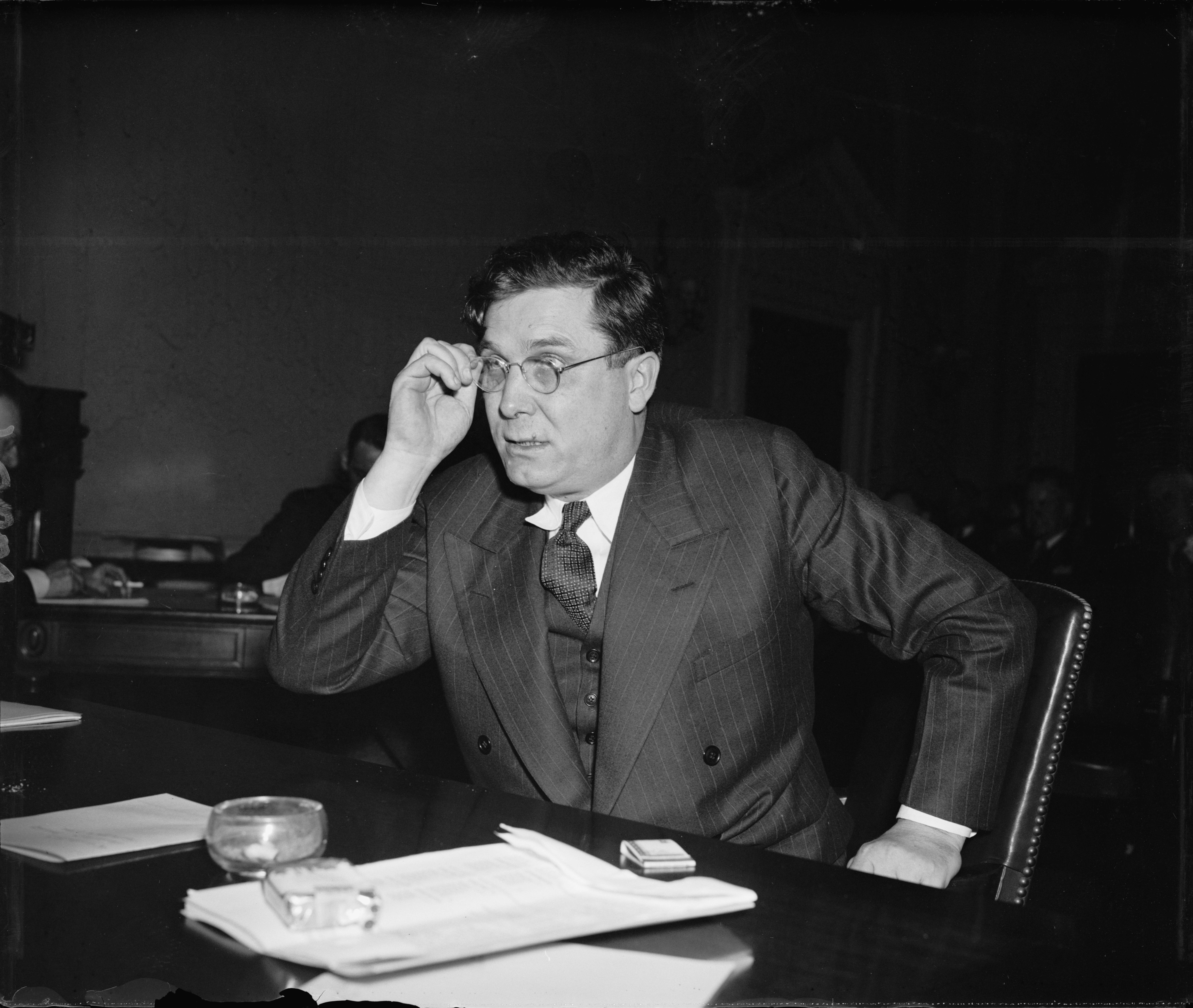 Wendell Wilkie, President of the Commonwealth & Southern Corporation appearing before House Military Affairs Subcommittee, urging approval (with modifications) of the Senator Norris Bill (later named the Tennessee Valley Authority Act) so that the securities of the Tennessee Electric & Power Co. "will not be totally destroyed." No known restrictions on publication.